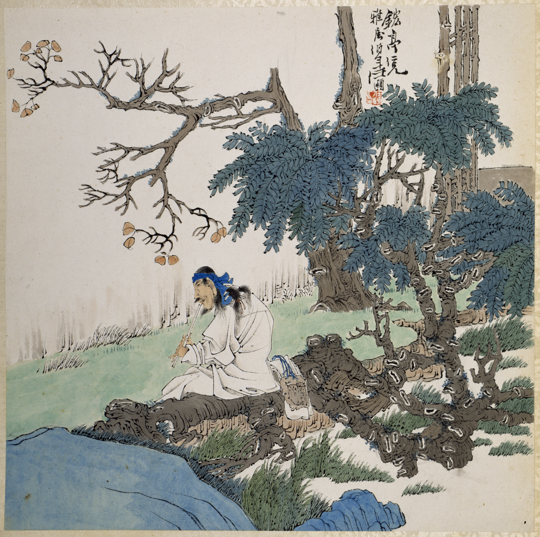 A solitary man sits on gnarled roots and plays the flute. Contrary to first impressions, this is not an uninhabitable place but a retreat of some sort; at the upper right there is a wall and a tall fence. Beyond the man, a cliff-face is rendered primarily by the white of the paper.